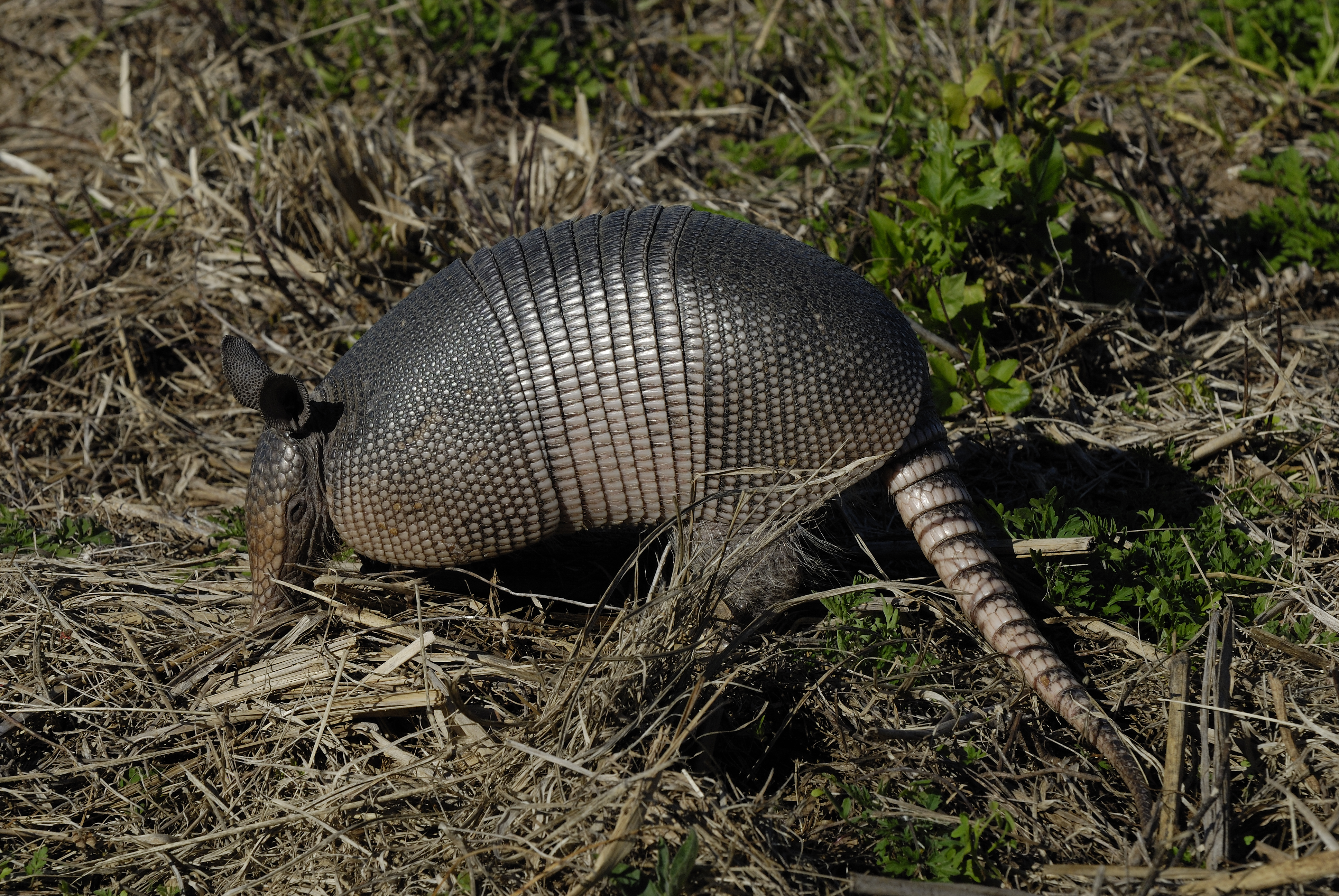 Nine-banded Armadillo (Dasypus novemcinctus) Merritt Island Florida